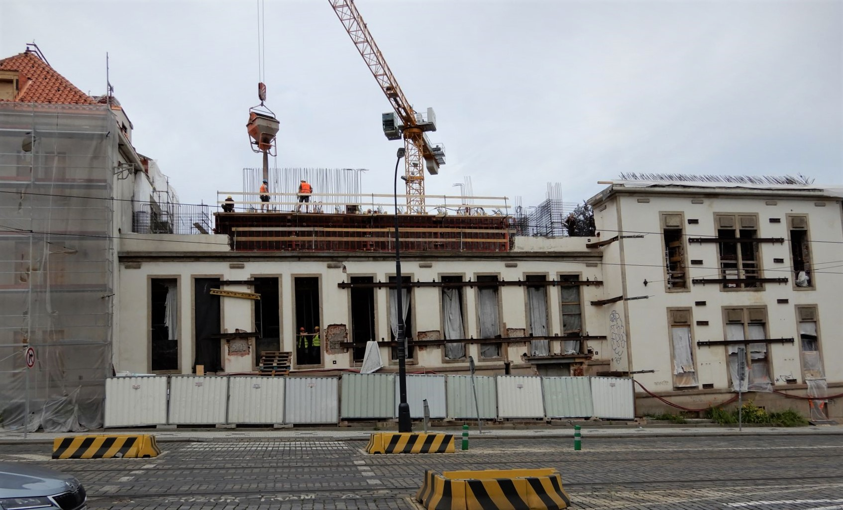 Kunsthalle Prague, view from NW during reconstruction, June 2020